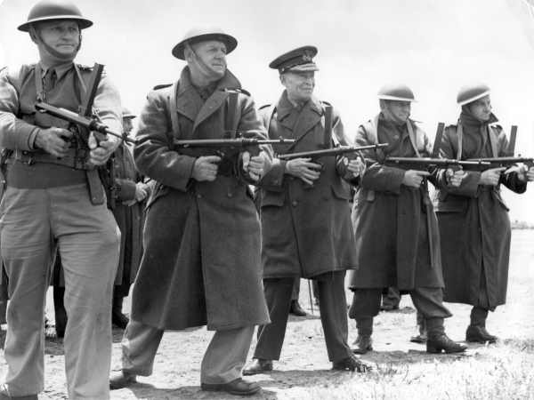 Gen. Sir Harry Chauvel lined up with a group of officers for practice with an Owen gun.